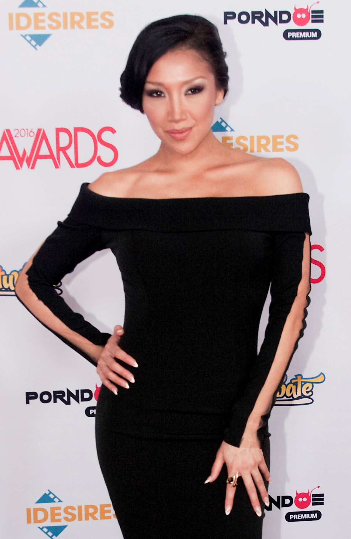 Vicki Chase at AVN Awards 2016